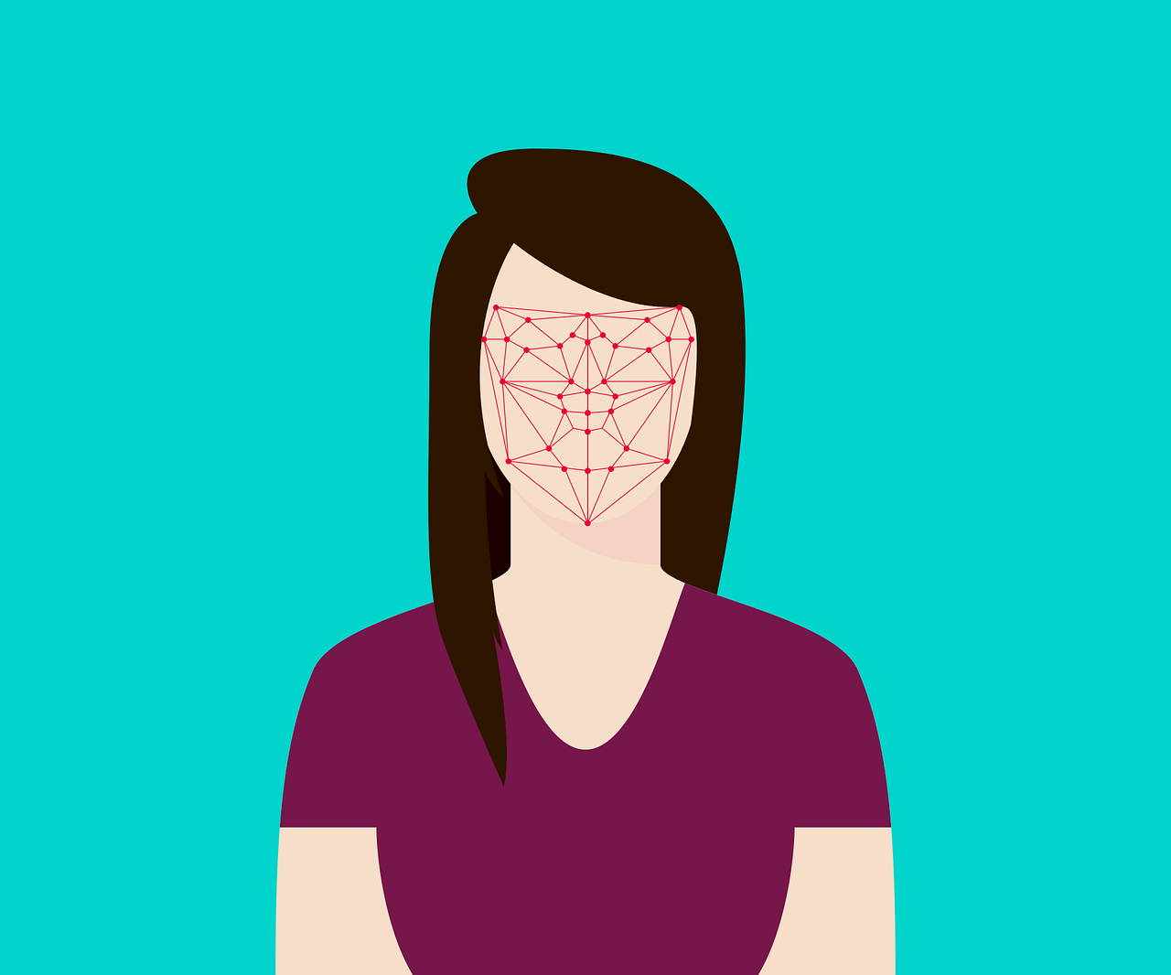 Flat Recognition Facial Face Woman System